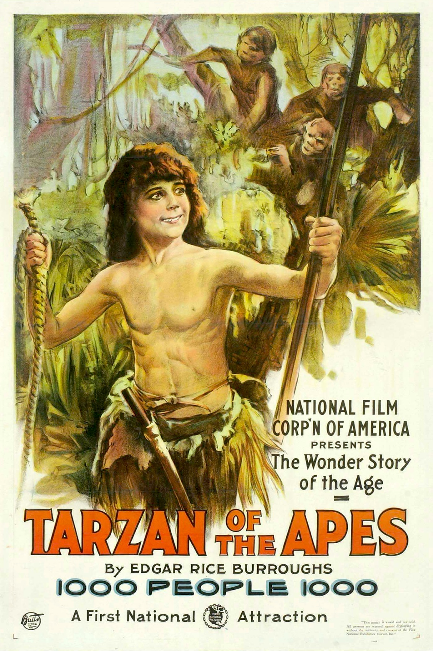 Poster for 1918 film version of Tarzan of the Apes